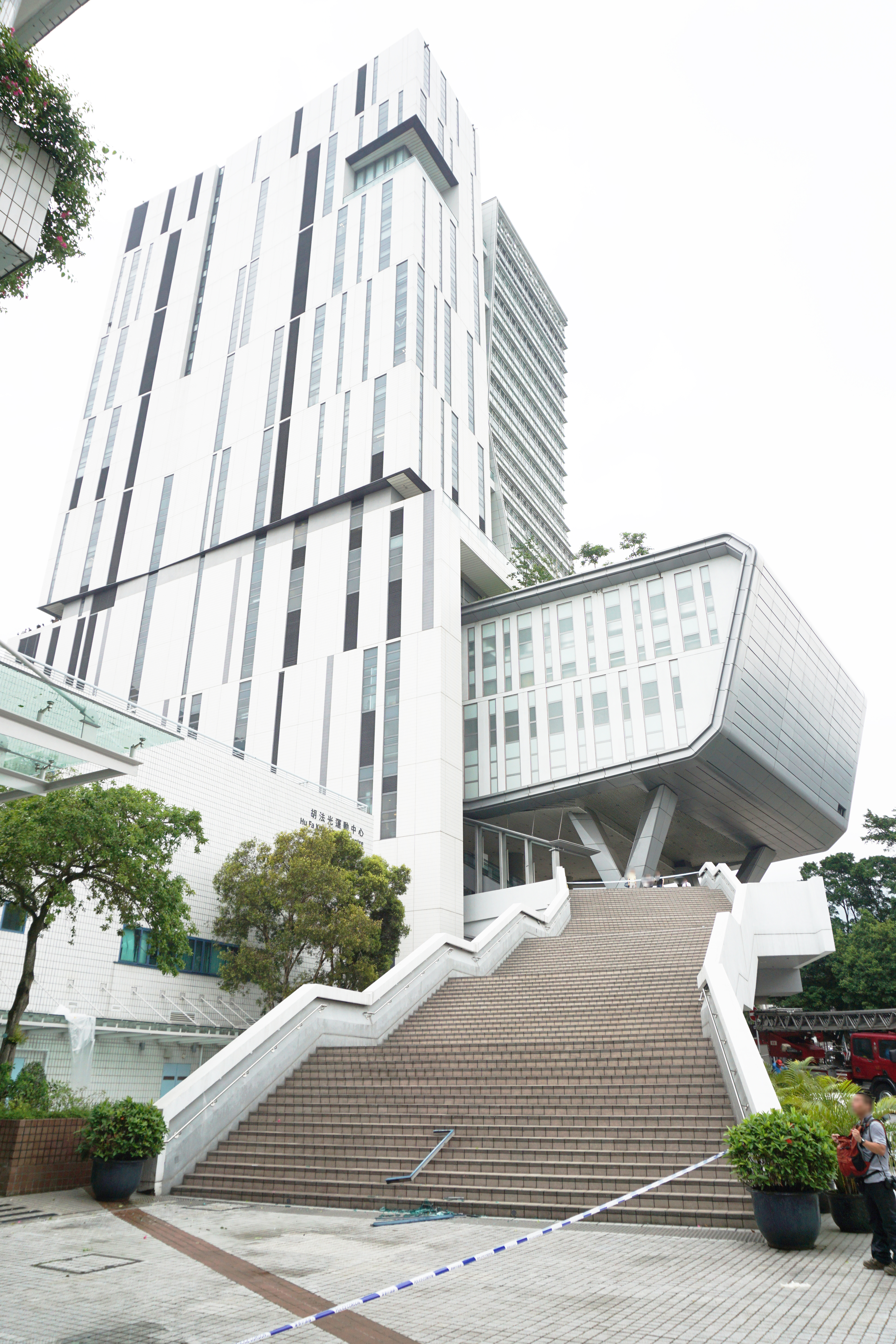 City University in Kowloon Tong, Hong Kong.